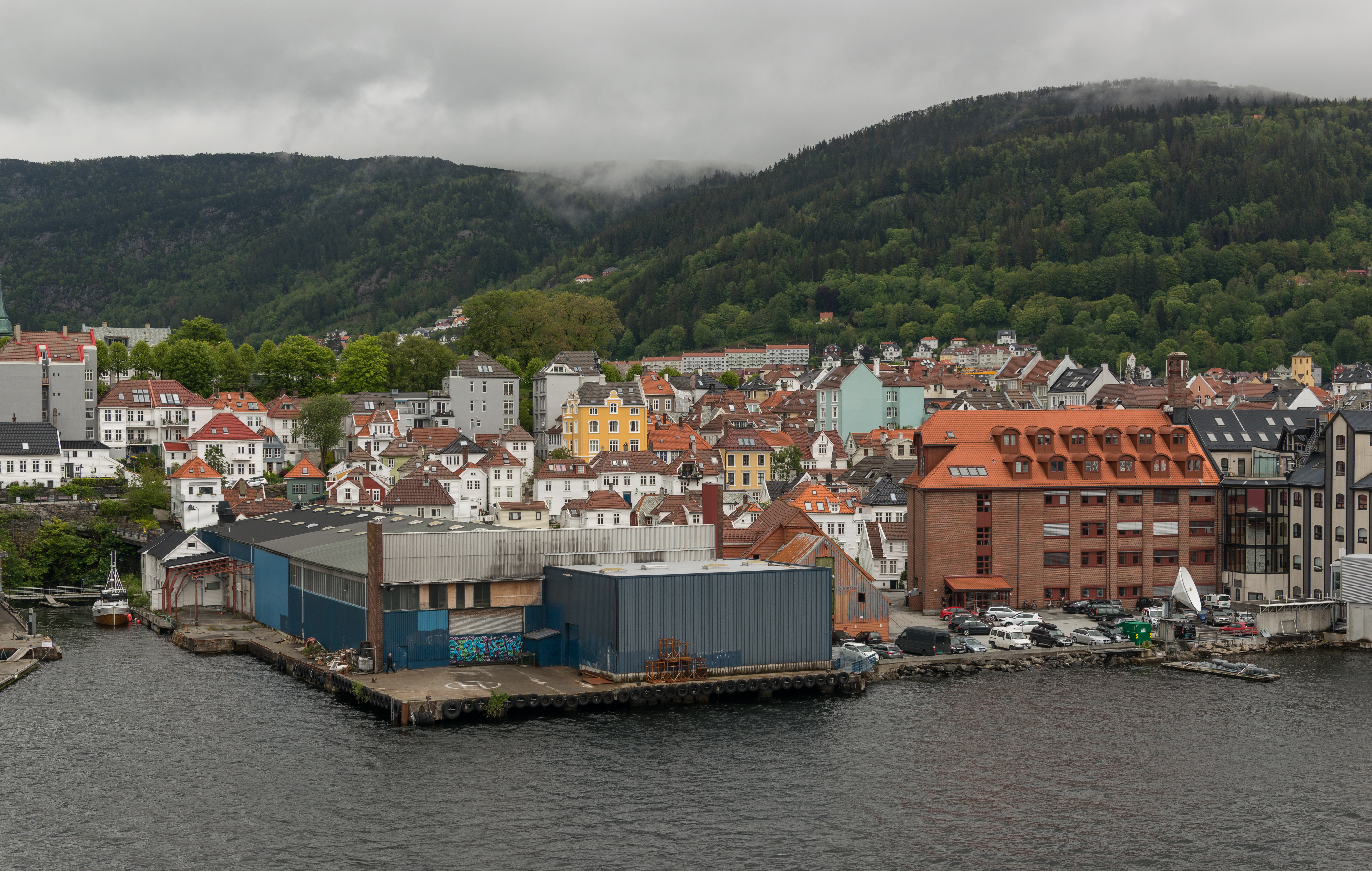 A west view of the Verften neighborhood, Bergen